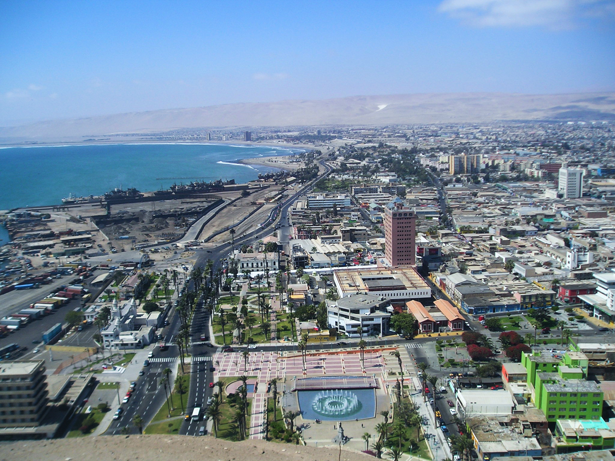 Arica, Chile - a view from El Morro of the port and downtown